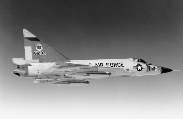 A U.S. Air Force Convair F-102A-65-CO Delta Dagger (s/n 56-1283) from the 317th Fighter Interceptor Squadron, Elmendorf Air Force Base, Alaska (USA), in flight. This aircraft crashed on 13 June 1969.